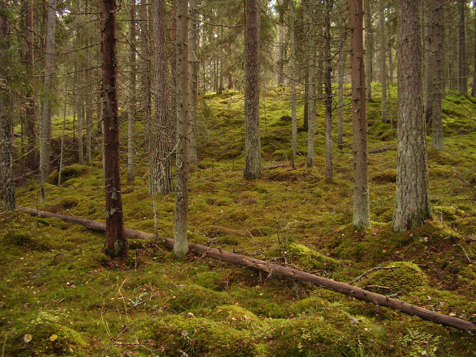 Moss-covered field layers of old growth forest. Forest name Pyssynkangas. The surface area of ​​7 hectares. Founder of Liisa Gröndahl.